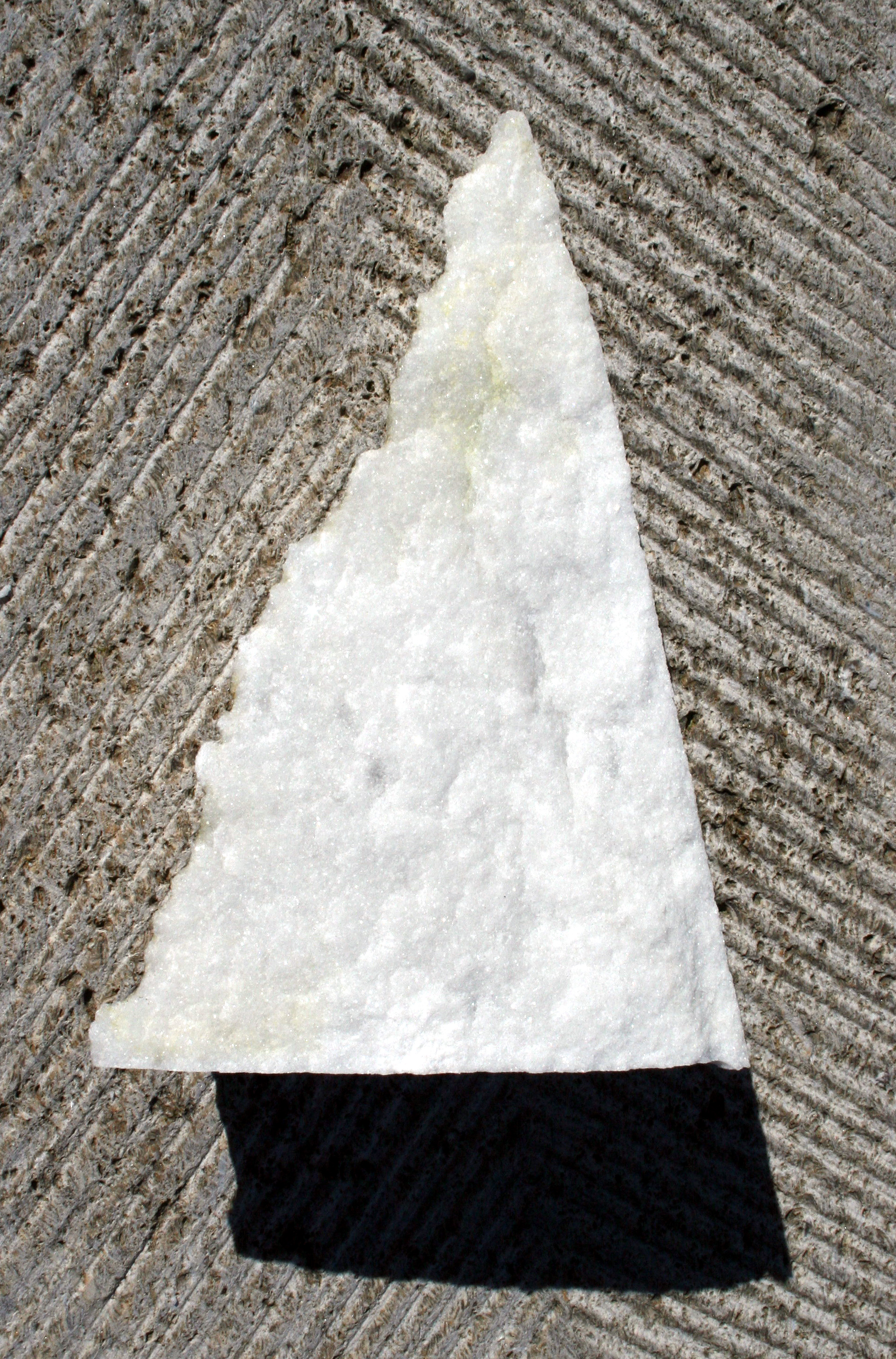 Retouched version of Bild:Carrara-Muster.JPG, which has the following description